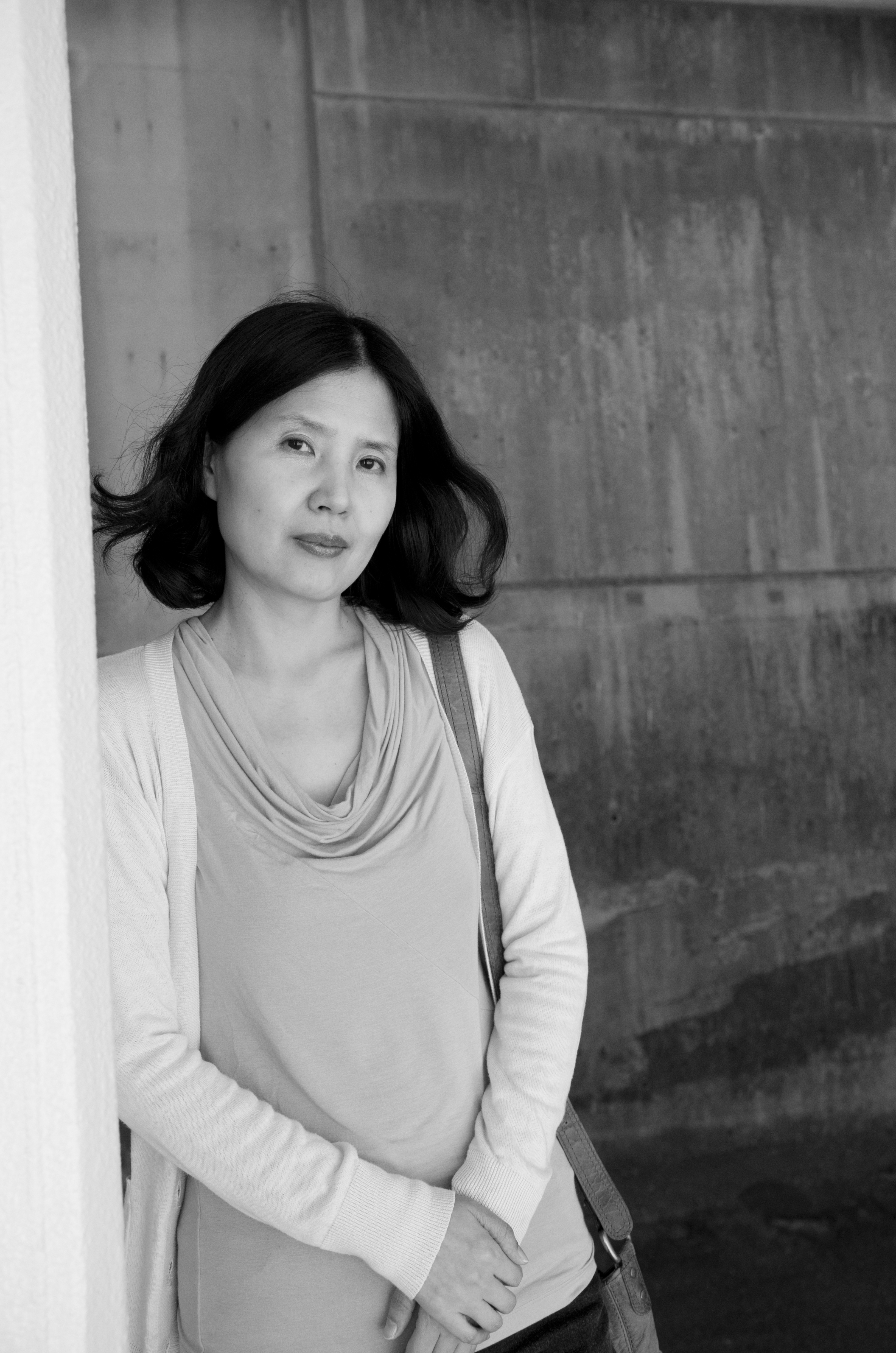 Profile